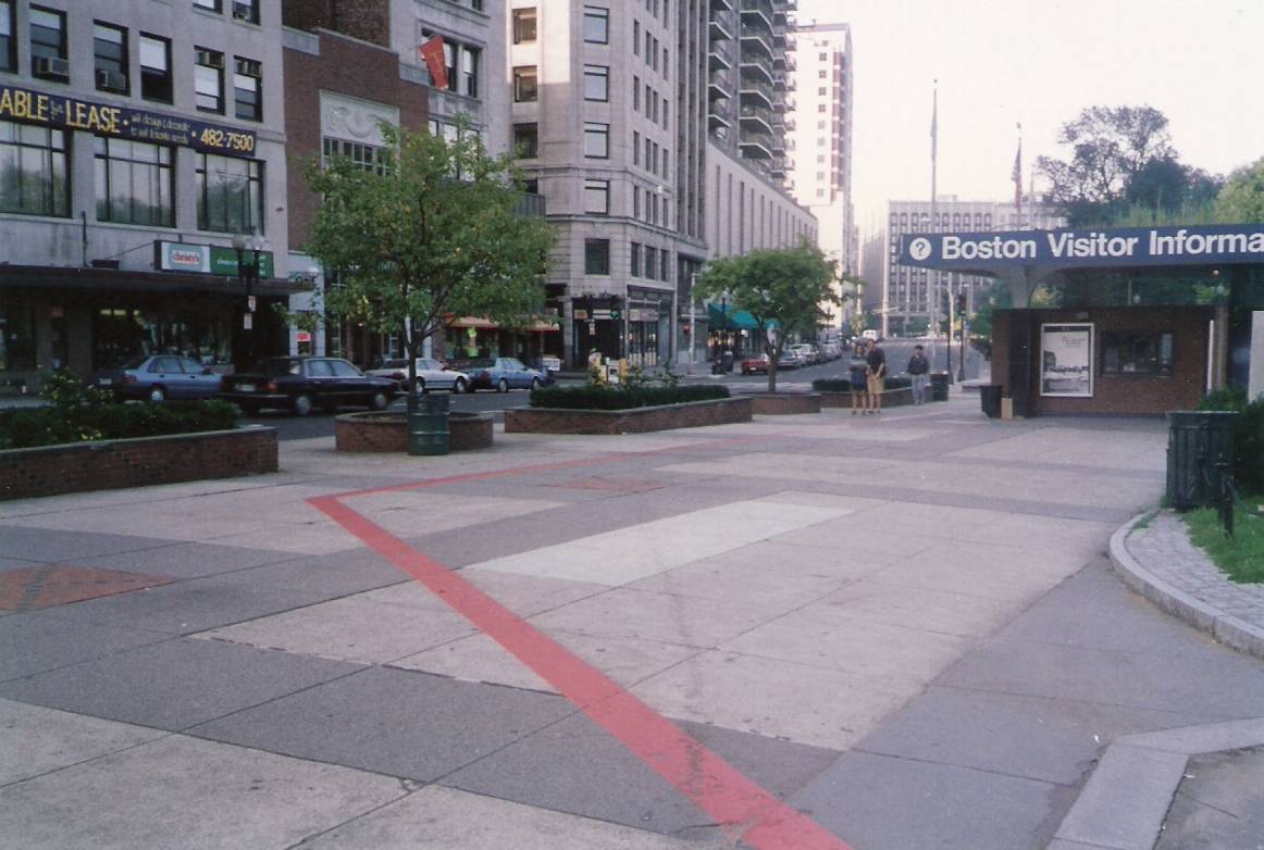 the freedom trail, boston, u.s.a